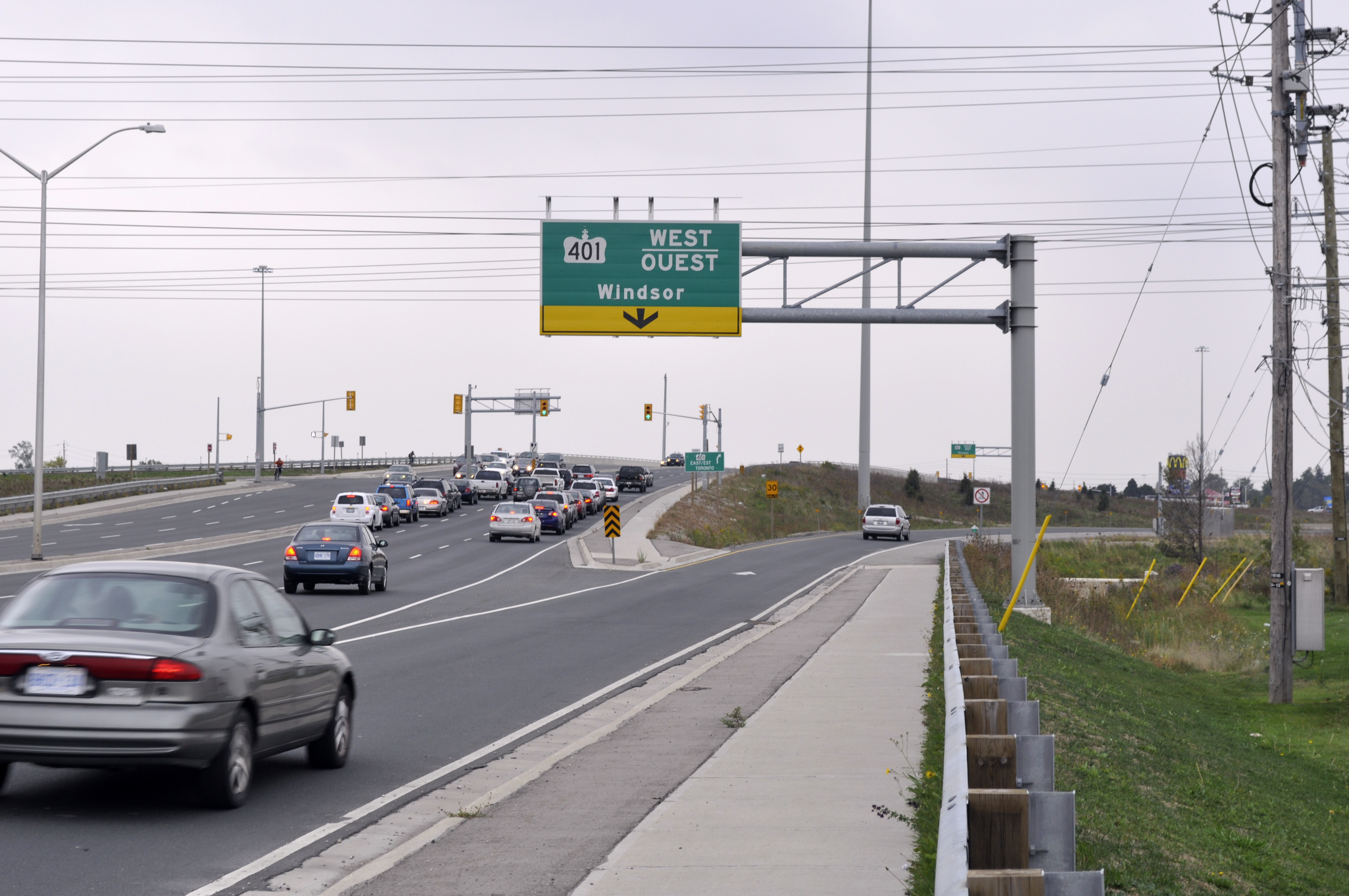 Looking south the Wellington / Exeter Road intersection at the Wellington / Highway 401 interchange. This is London's gateway interchange and links the city's downtown with the highway.